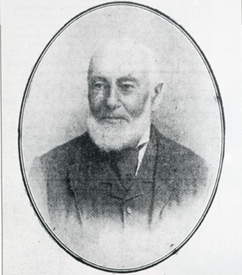 Mr John Macintosh, longest resident of Lindesay, Darling Point, NSW.